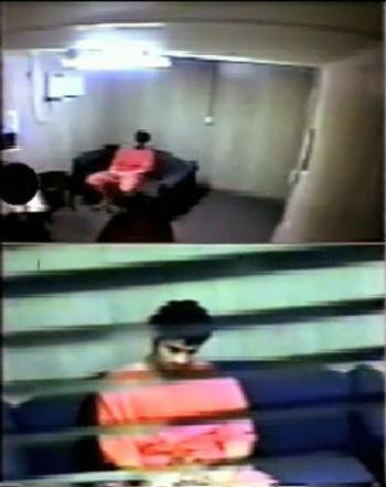 This image is taken from a video secretly recorded when 16 year old Guantanamo captive Omar Khadr was interrogated by Canadian officials in Guantanamo.